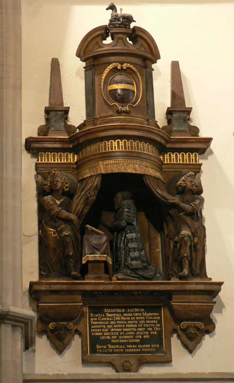 Memorial to Sir Eubule Thelwall, in Jesus College Chapel, Oxford. Arms above (repainted incorrectly): Gules, a fess or between three boar heads couped argent (Burke, General Armory of England, Scotland, and Ireland)